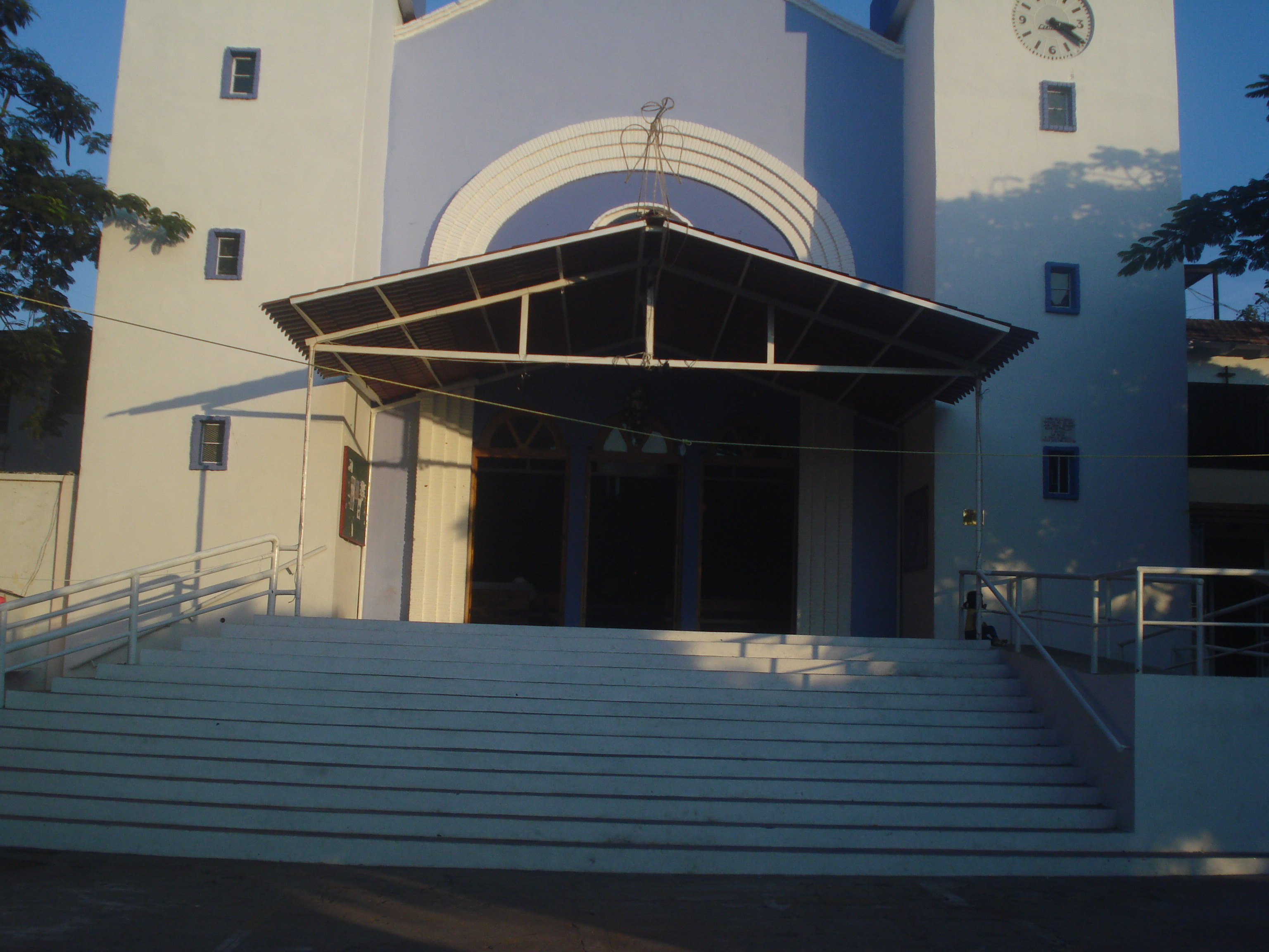 Church of Saint Roch, at Tuxtla, Chiapas, Mexico.